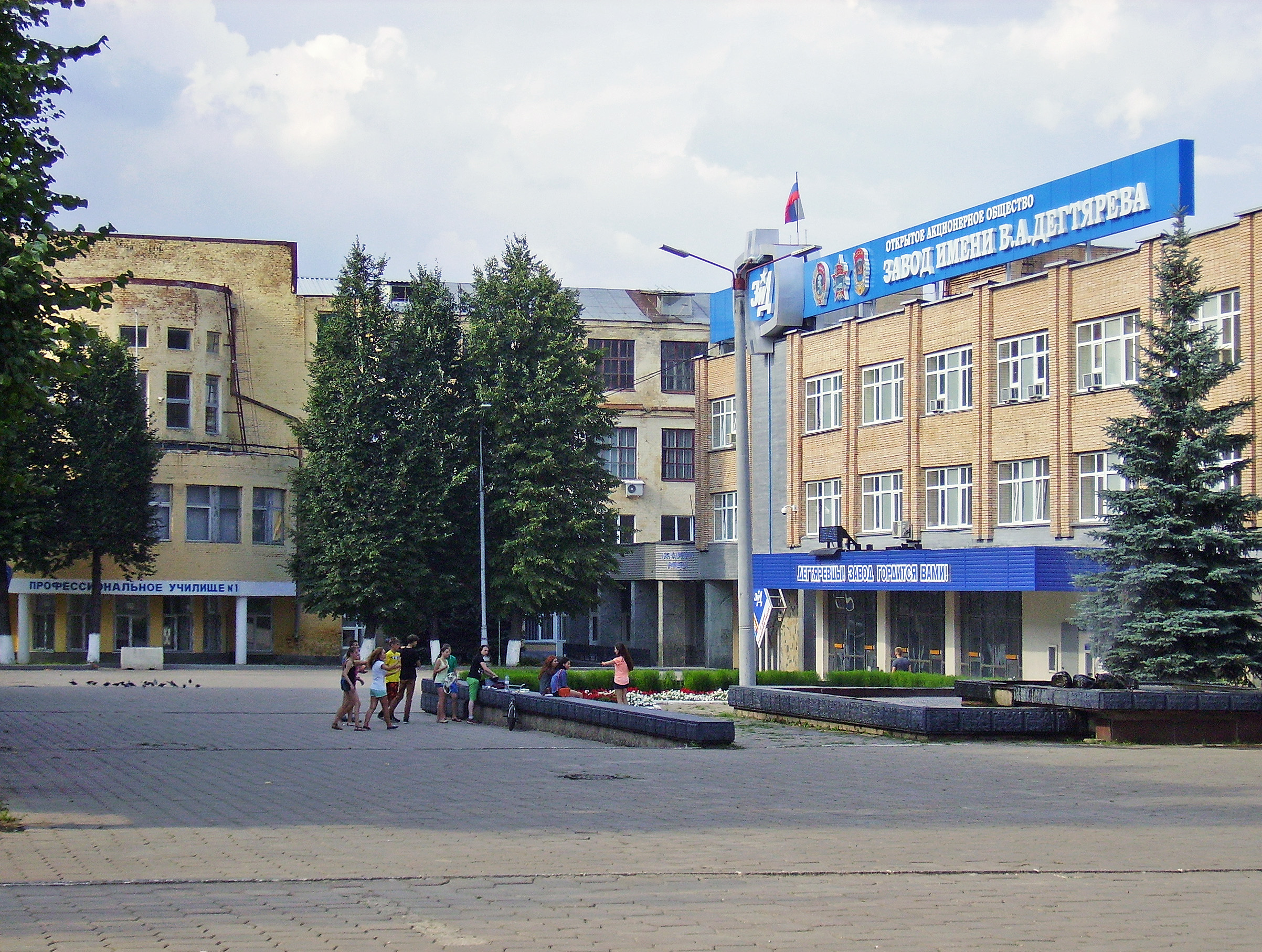 Kovrov. Corner of First May Day & Trud (Labour) Streets